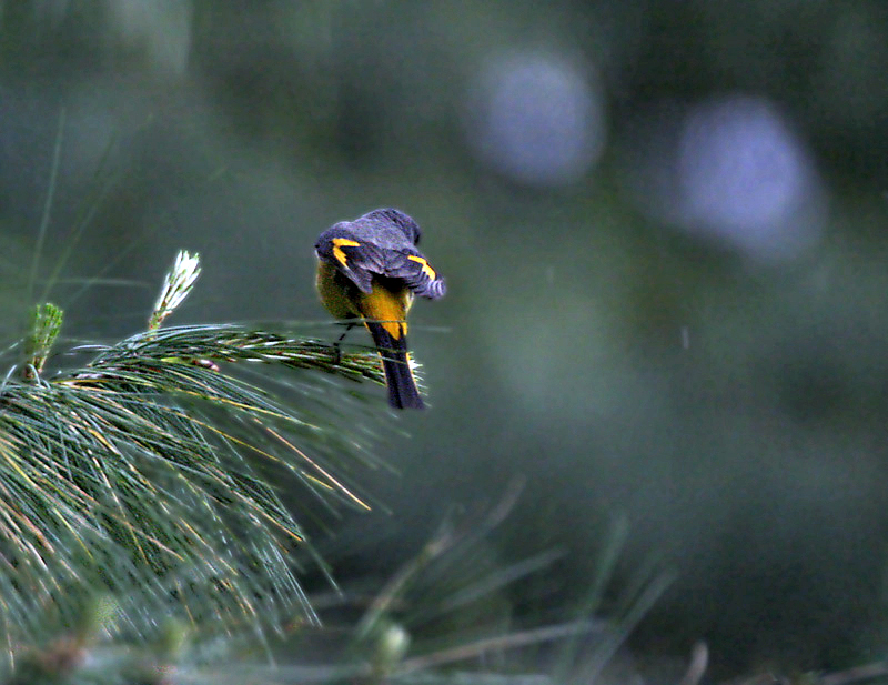 Long-tailed Minivet Pericrocotus ethologus at 9000 ft. in Kullu District of Himachal Pradesh, India.